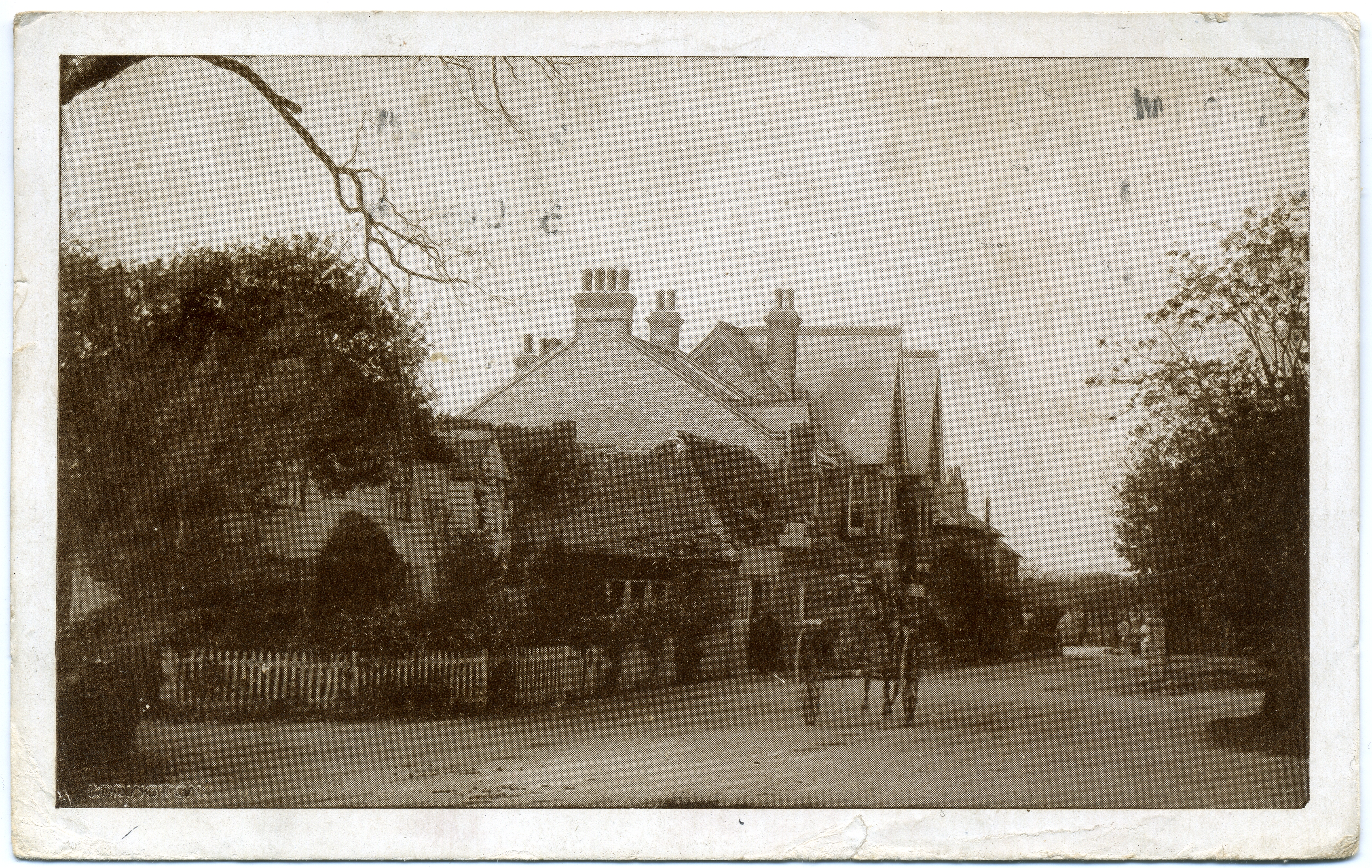 Sepia postcard of Eddington, Herne Bay, Kent, England. Postmarked "London W., 2pm, 5 Oct 14A". The picture shows the original village or hamlet long before the area became a suburb of Herne Bay. Most of the buildings in the photo still exist. The site is on the east side of the Canterbury Road (A299), just north of Priory House at the southern end of Eddington. Points of interest: The house in the foreground is in the Kentish vernacular style with whitewashed weatherboarding and Georgian window frames, but the taller houses are late Victorian. Farmland can be seen beyond the buildings. There is no footpath. This site is now the Canterbury Road, looking north.